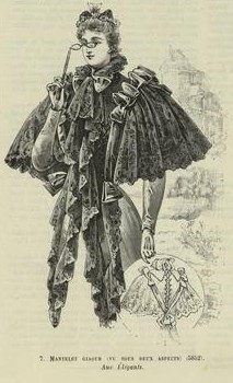 Detail of a mantelet cropped from a larger image scanned from a 1890s French fashion paper